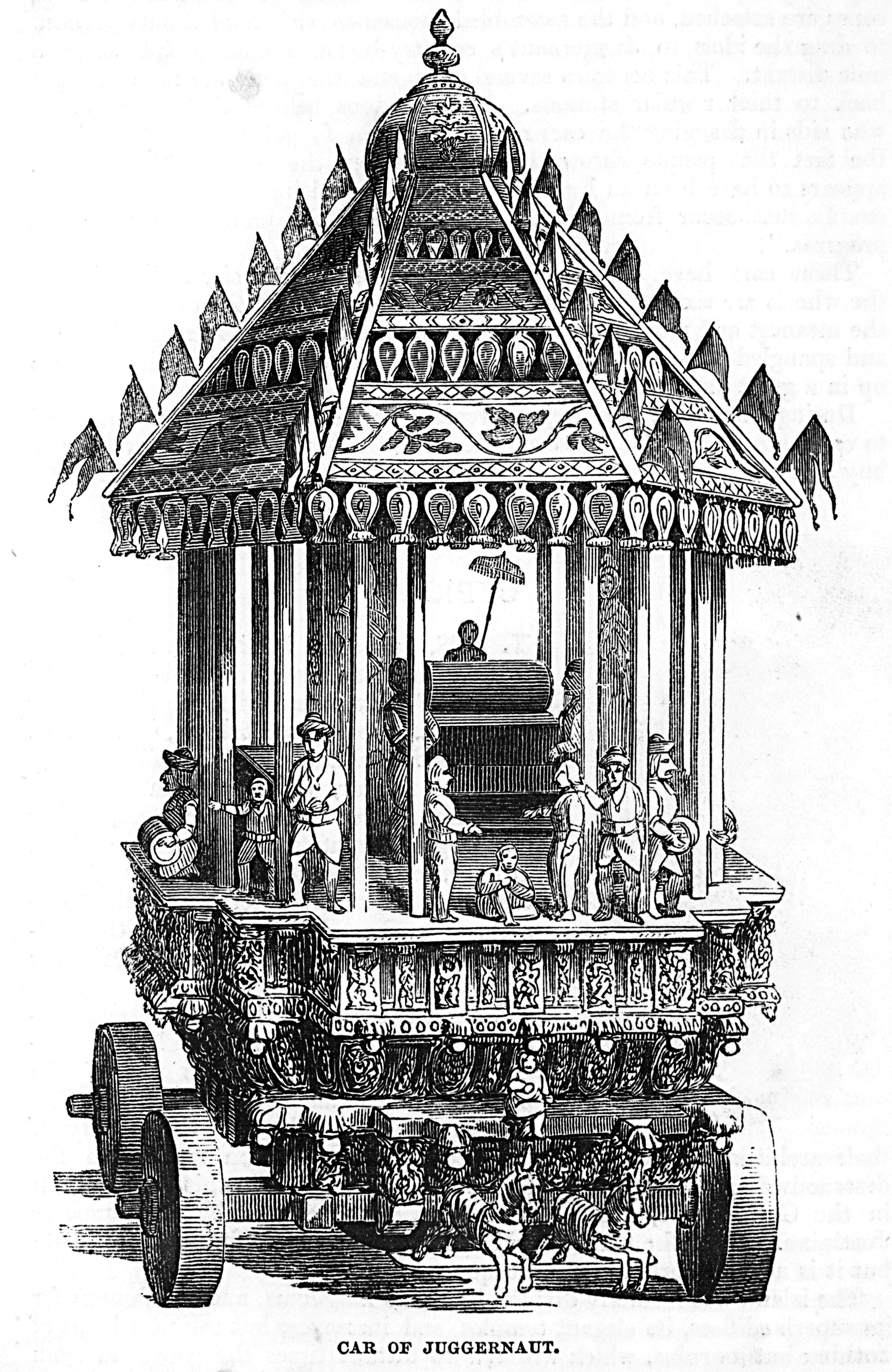 The Car of the Juggernaut